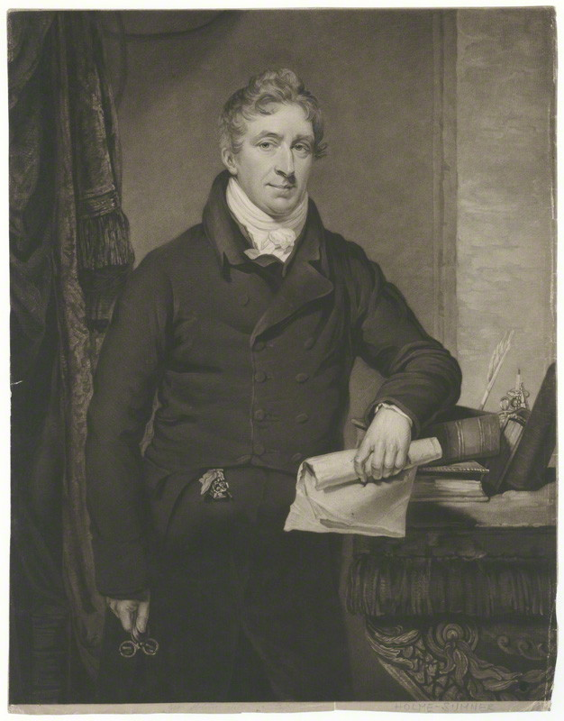 by William Ward, after Thomas Stewardson, mezzotint, 1814